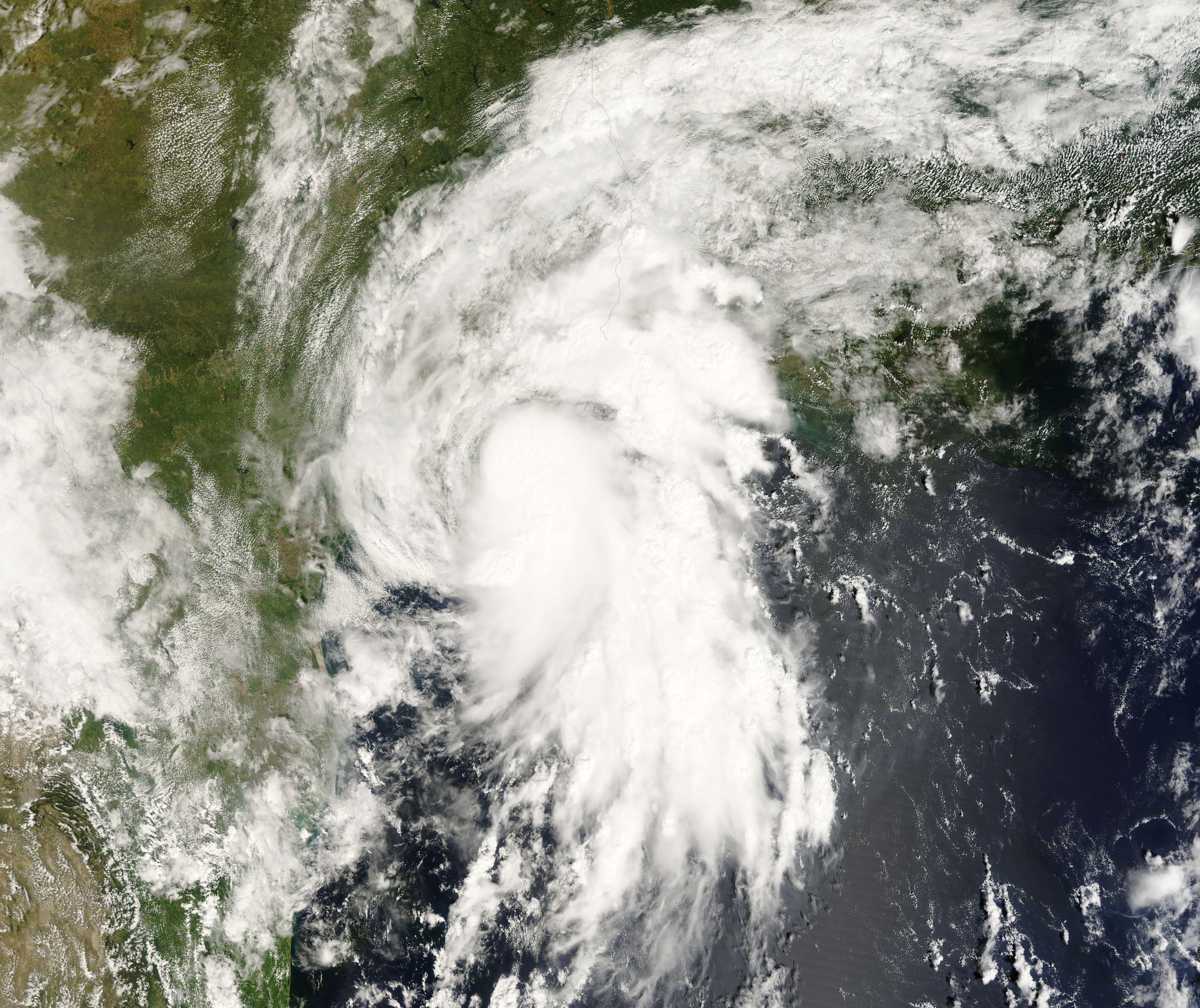 Tropical Storm Humberto at approximately 1655 UTC, as seen by the MODIS instrument aboard NASA's Terra satellite.